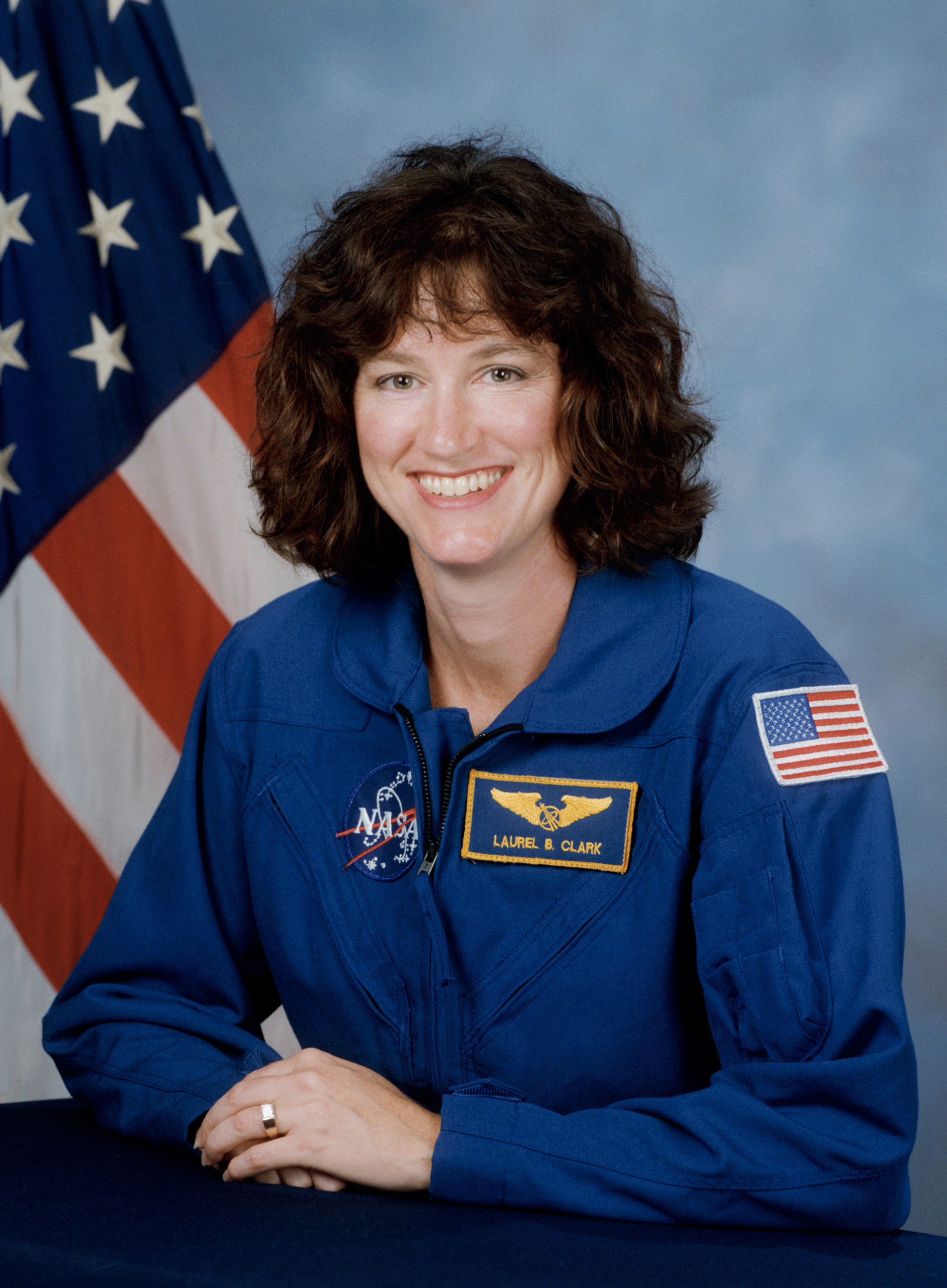 Laurel Clark, American astronaut who died during the failed re-entry of Space Shuttle Columbia.